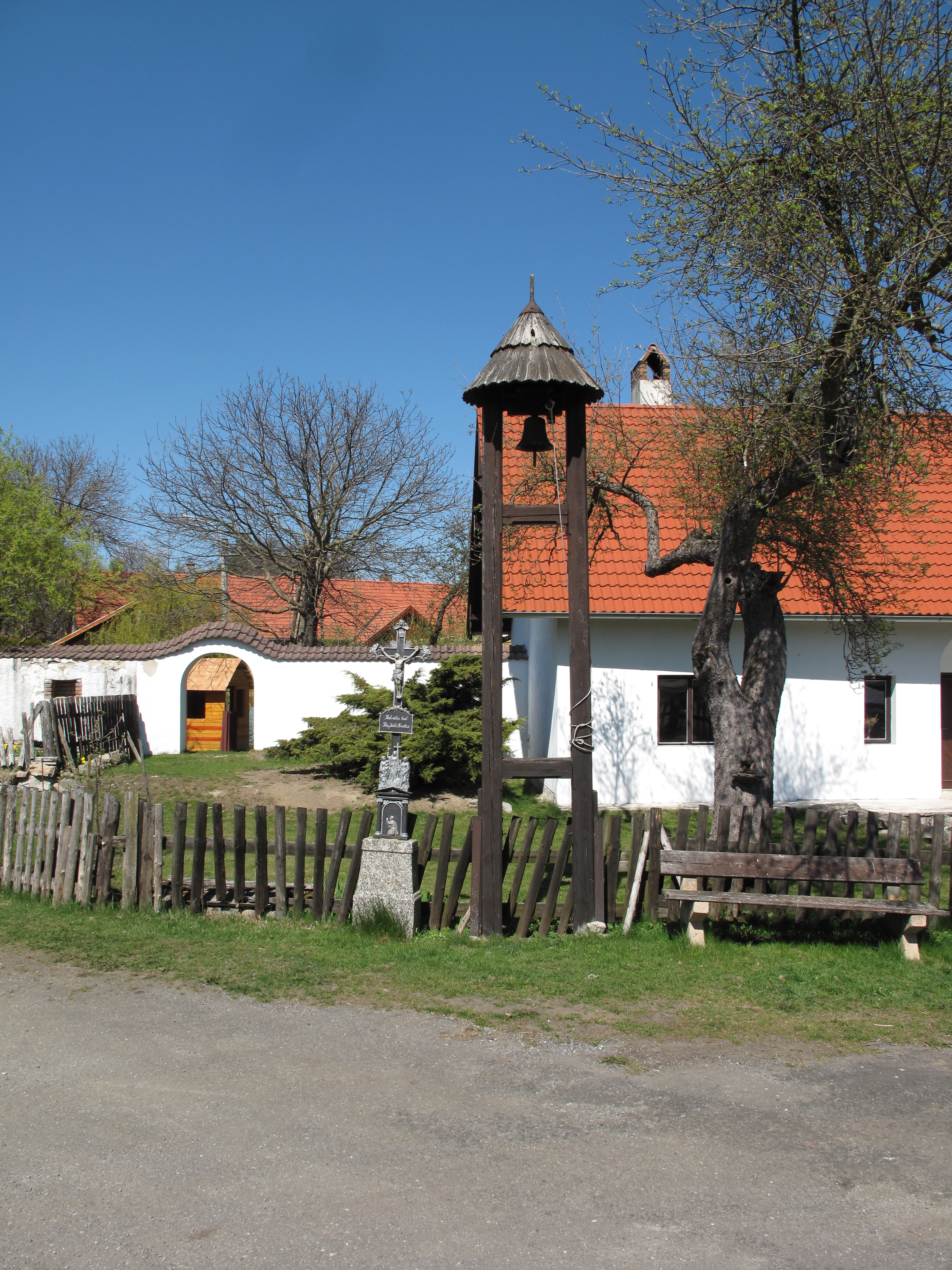 Bell tower in Javoří.